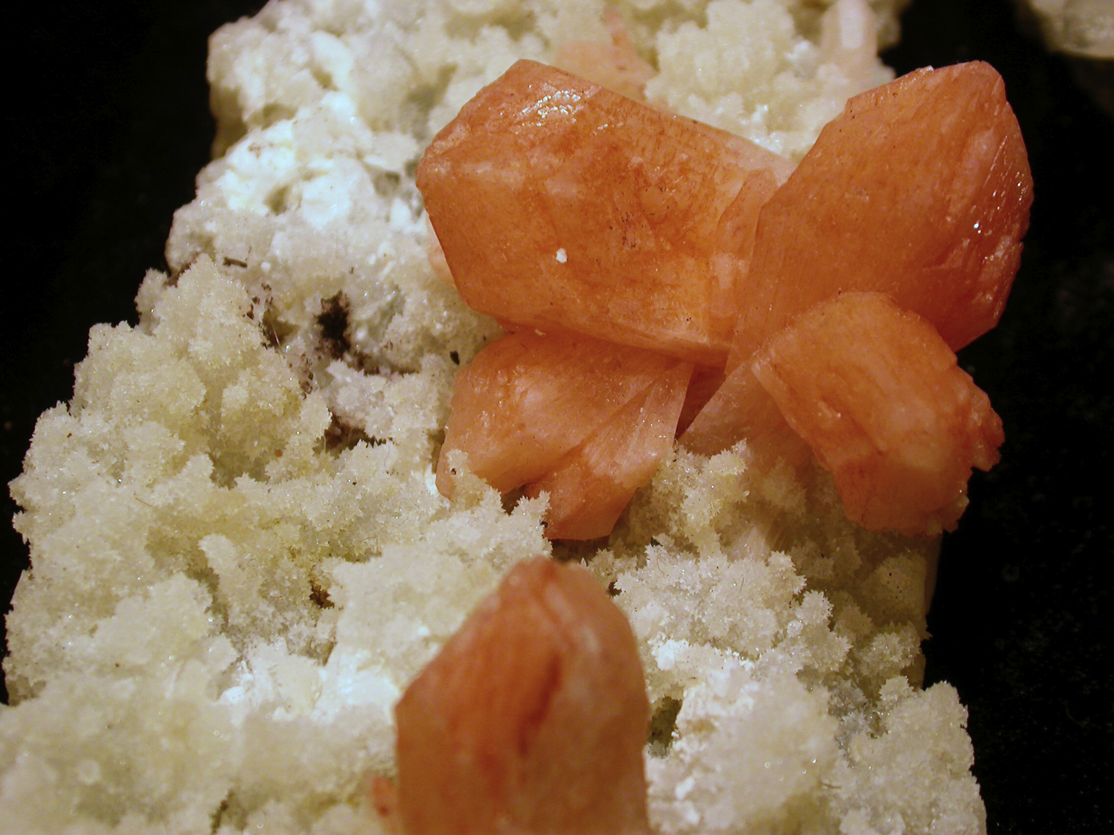 Stilbite from Loonania/Maharashtra India - picture taken on a mineral exchange